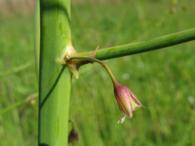 Spargel Asparagus officinalis, Stoltera Nähe Rostock